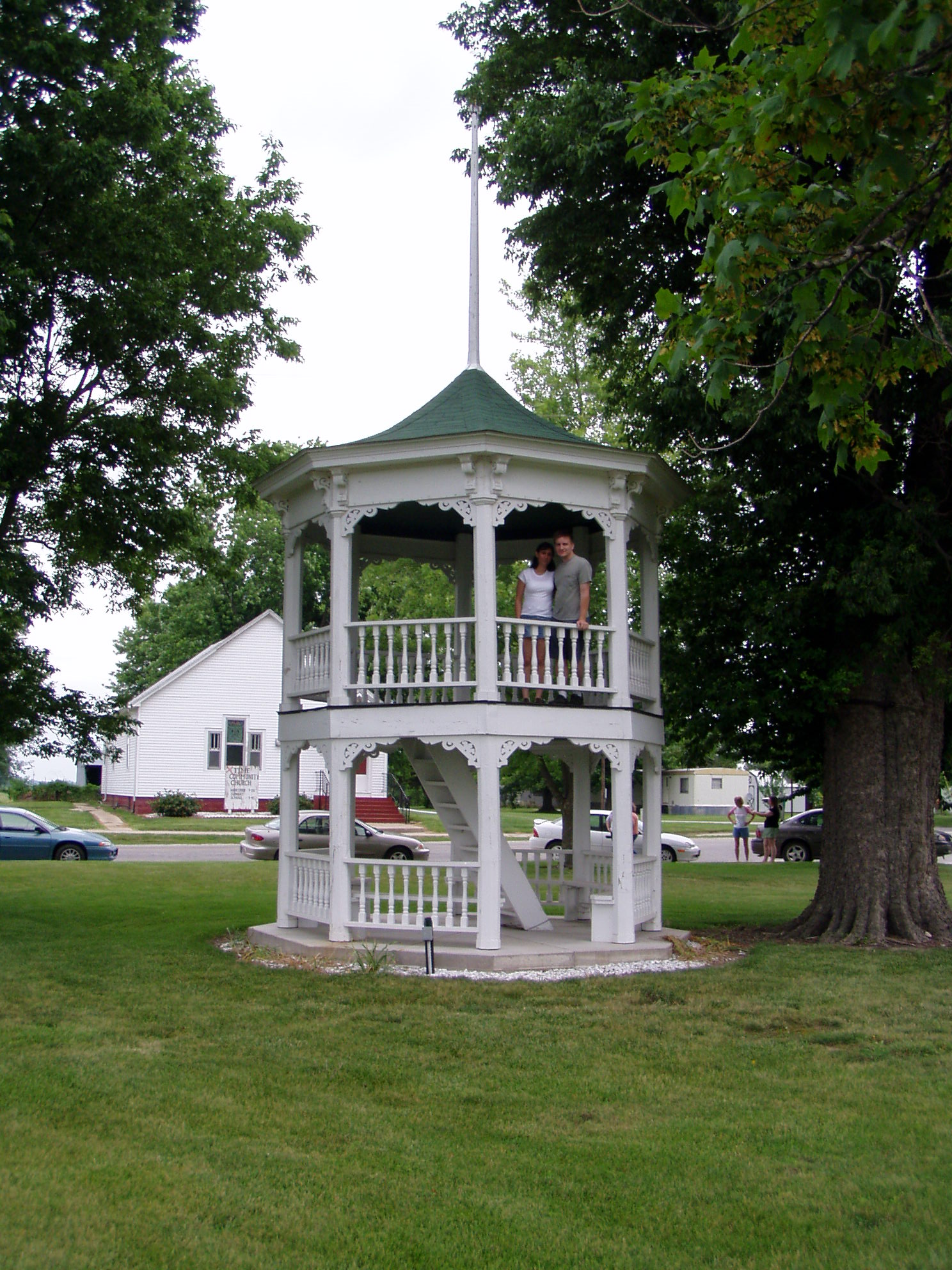 Double-Decker gazebo, Time, Illinois, Pike County, Illinois